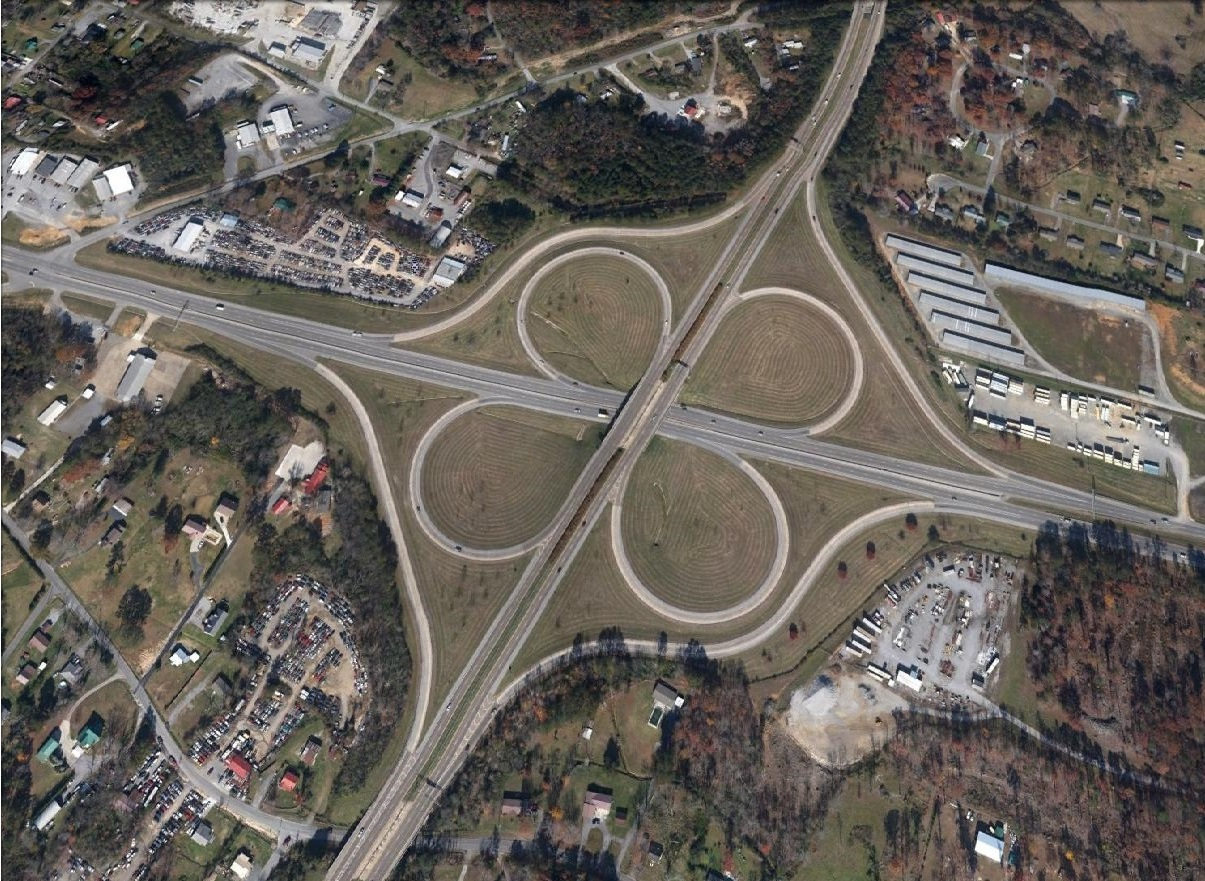 Aerial photo of a cloverleaf interchange in Cleveland, TN